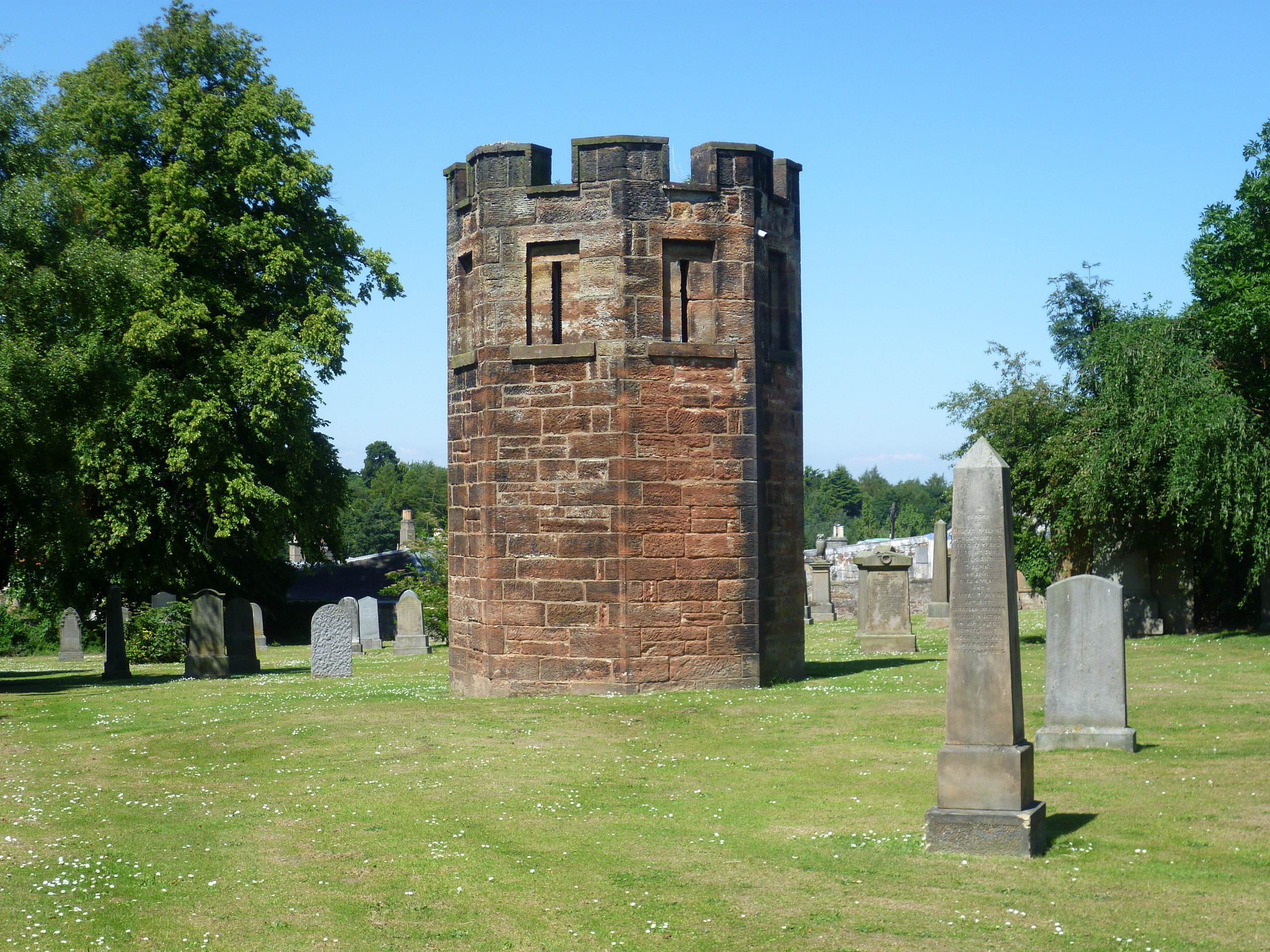 A watchtower in Dalkeith Cemetery, near Edinburgh. It as built in 1827 when the activity of body-snatching by so-called 'resurrectionists' was at its height.